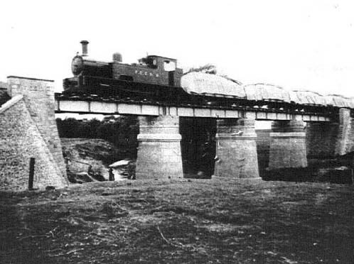 A locomotive and freight wagons property of Eduardo Depietri, crossing the bridge over Río Tala.